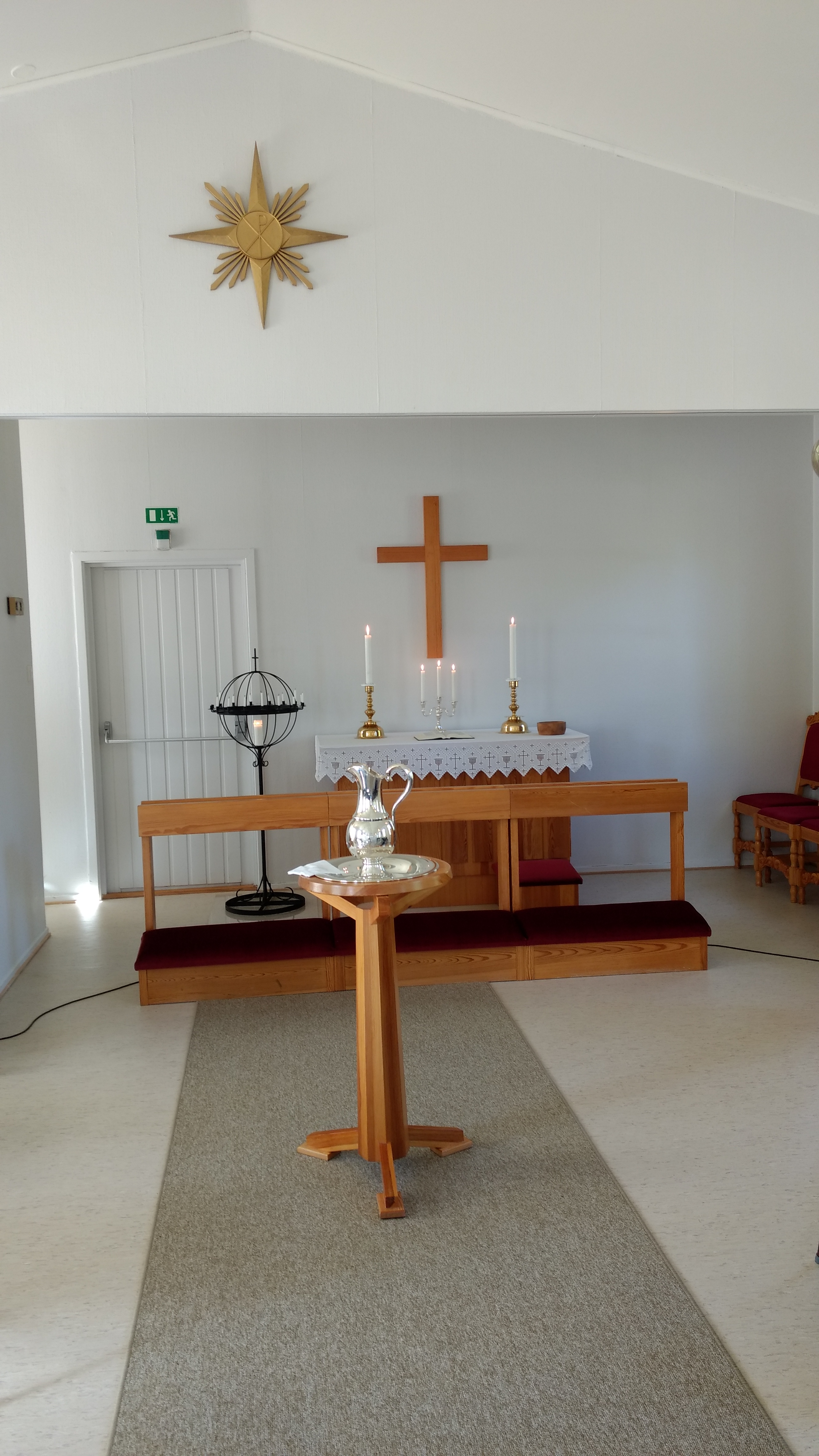 Altar area of Bentsjord chapel, Tromsø, Norway